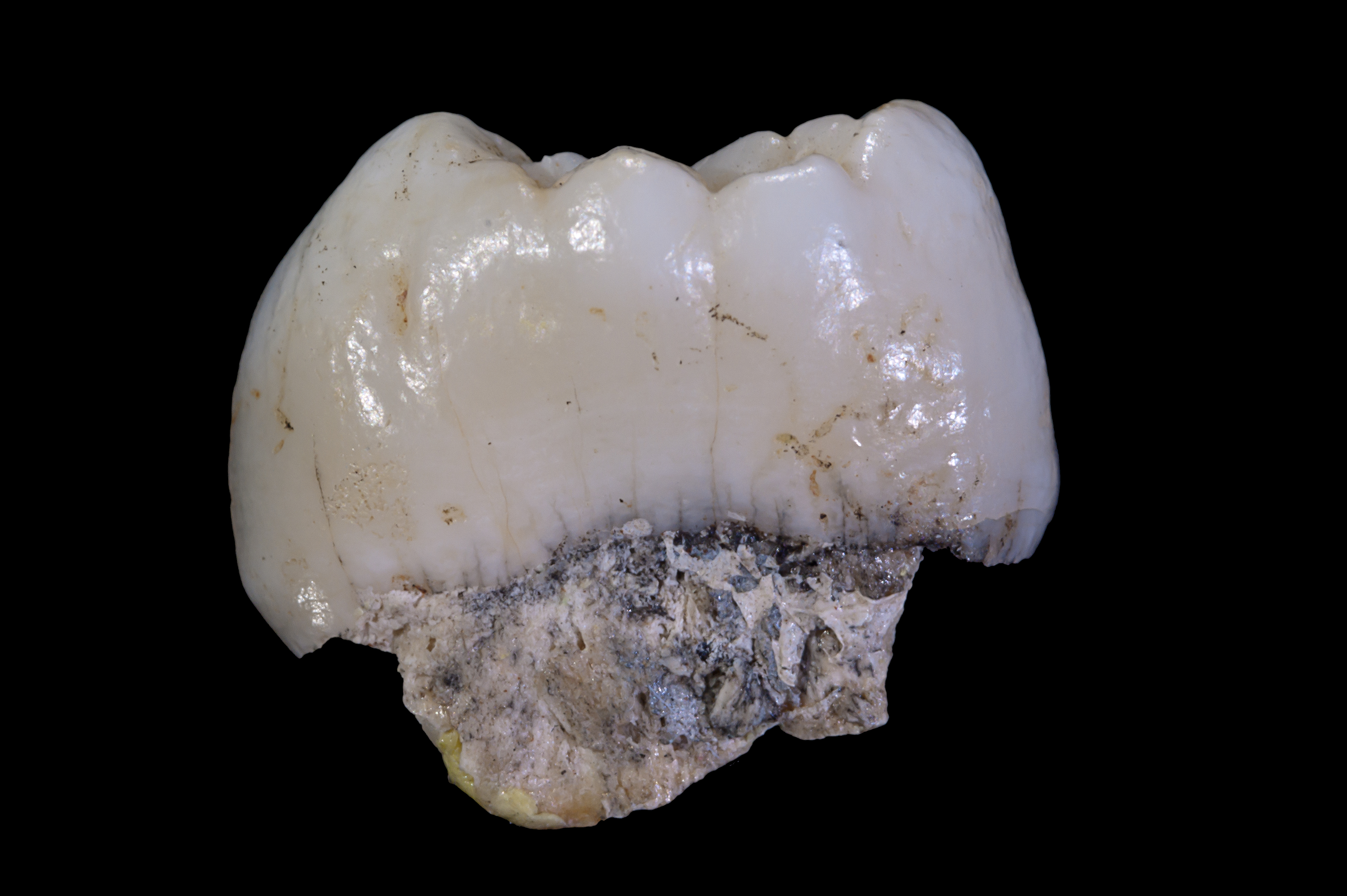 Tooth of Paranthropus robustus SKX 21841 from Swartkrans (26°00'S 27°45'E), Gauteng, South Africa 1.8 million year-old. Collection of the Transvaal Museum, Northern Flagship Institute, Pretoria South-Africa.(16.17x13.09x5.48mm)